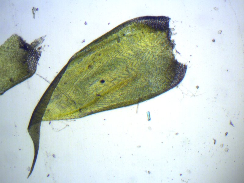 Zypressen-Schlafmoos (Hypnum cupressiforme), Blatt, etwa 40x vergr.